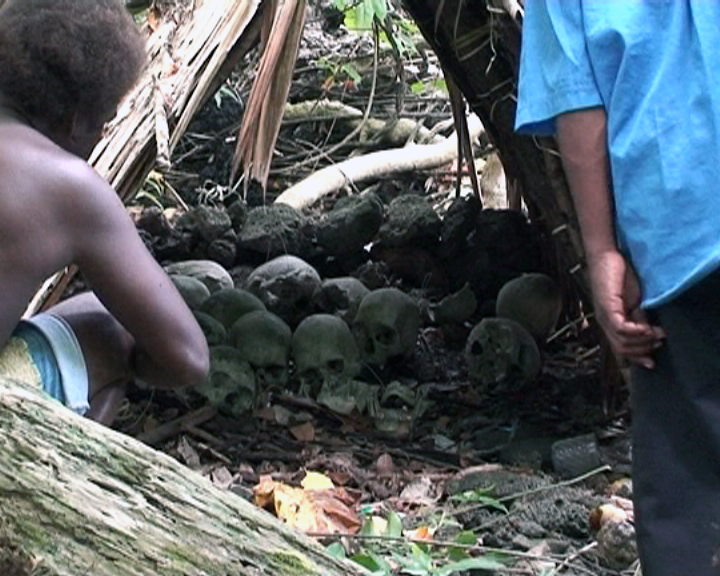 One of the locations of the Priest's skulls on Laulasi ISland